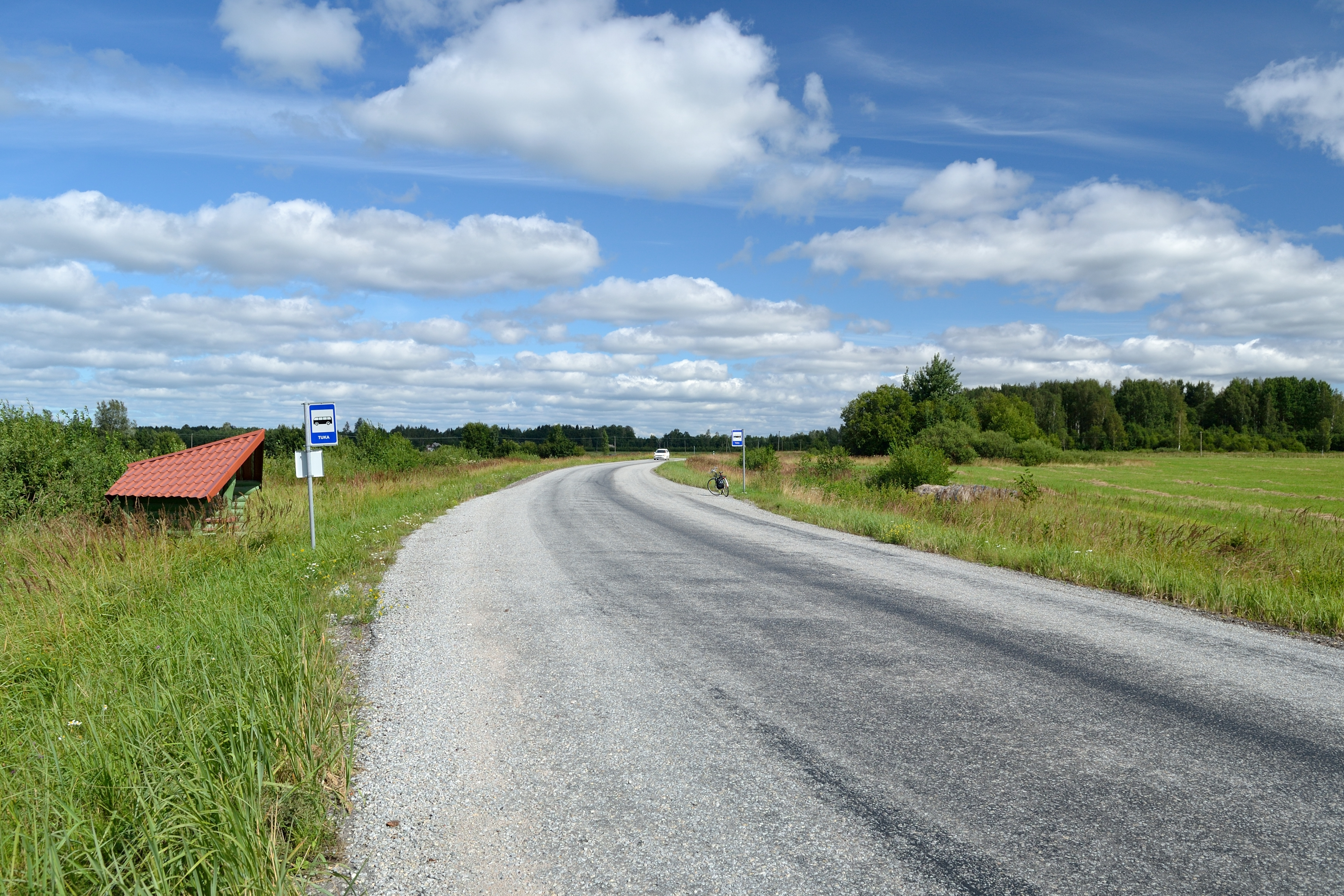 Surju–Seljametsa road in Vasrääma village (Estonia)